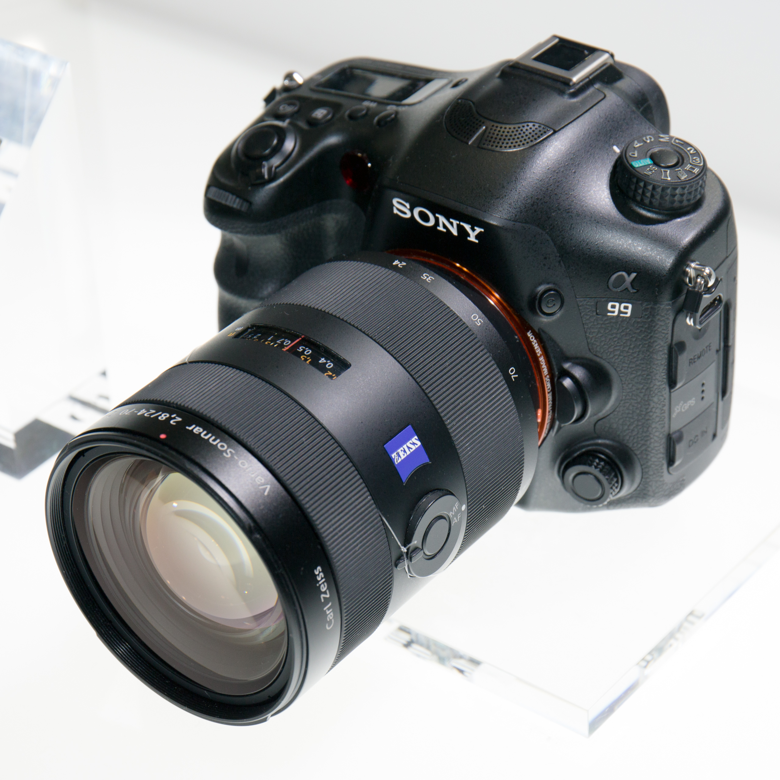 CP+ 2013: 2011 Sony Alpha 99 (SLT-A99)